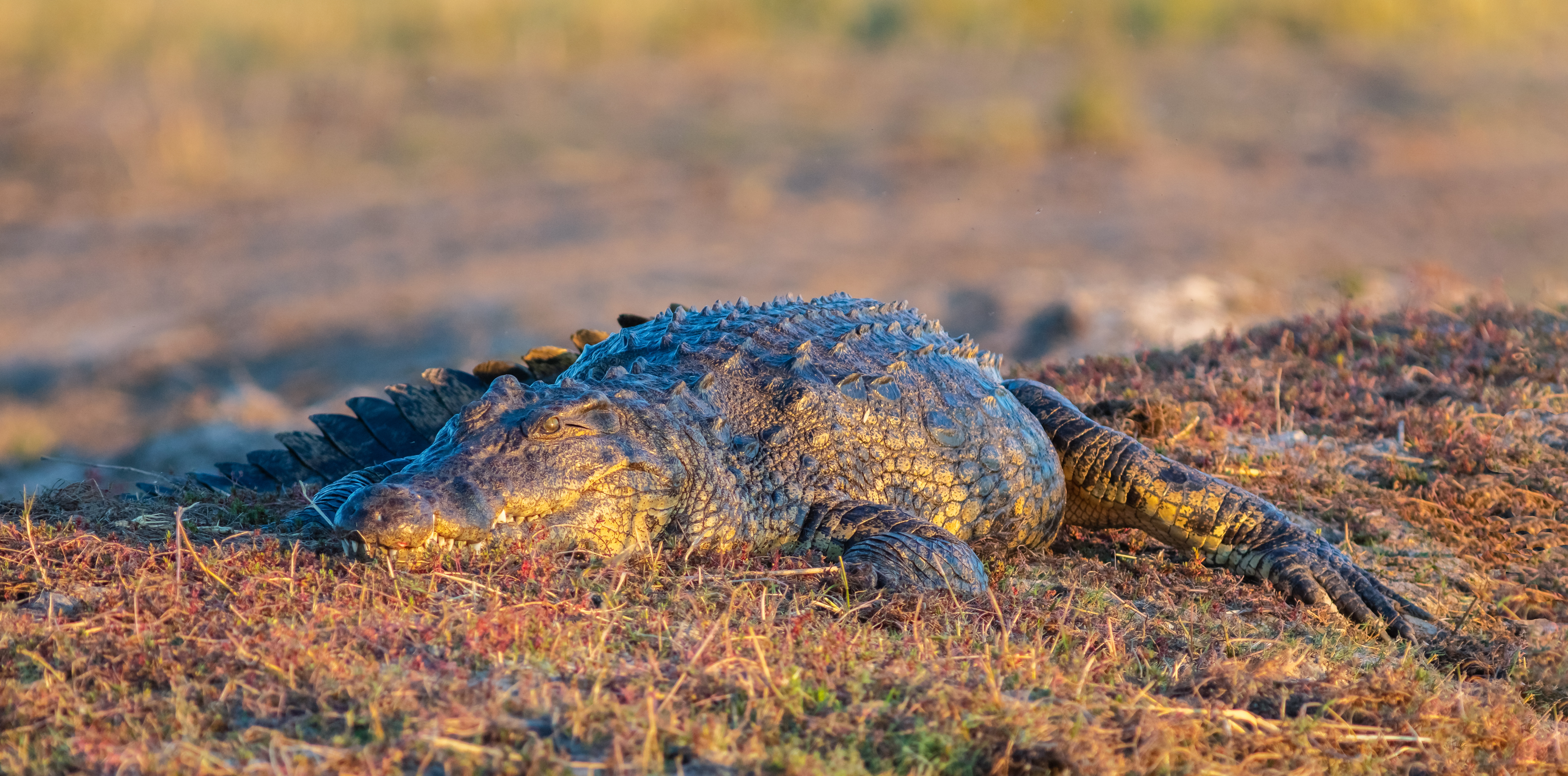 Nile crocodile (Crocodylus niloticus) during the golden hour, Chobe National Park, Botswana.